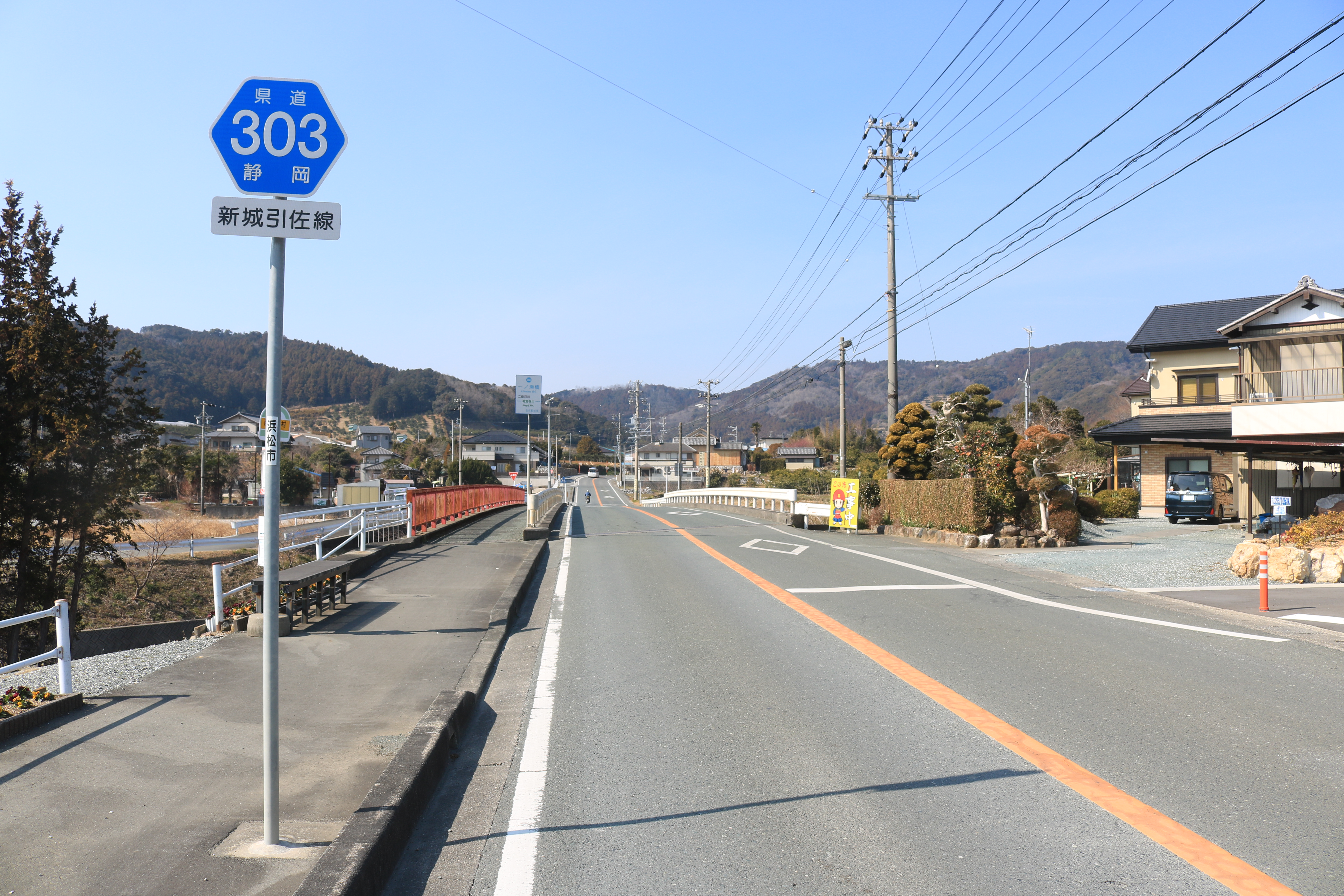 Shizuoka Prefectural Road Route 303 in Kurobuchi, Inasacho, Kita-ku, Hamamatsu, Shizuoka Prefecture, Japan. Canon EOS Kiss X8i